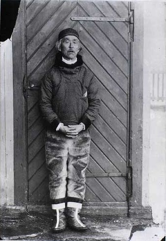 Rasmus Storm Josva Berthel Berthelsen (1827-1901), editor, poet, and educator from Greenland